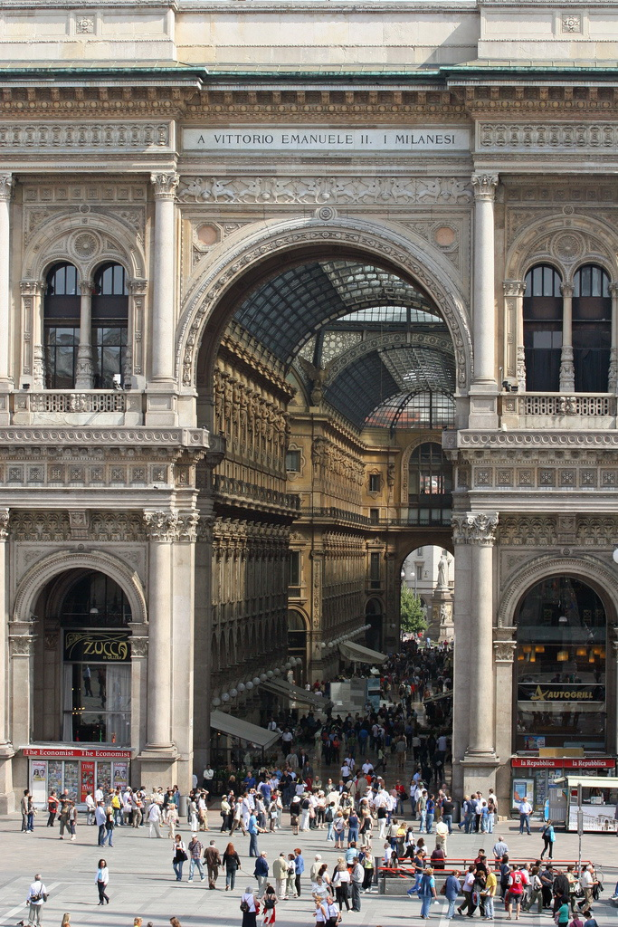 View of the triumphal arch of the Gallery Vittorio Emanuele II towards Piazza Duomo Square in Milan, Italy.